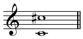 Augmented octave on C = C♯'. Just: 25:12 = 1270.67 cents. Equal-tempered: 213/12:1 = 1300 cents.